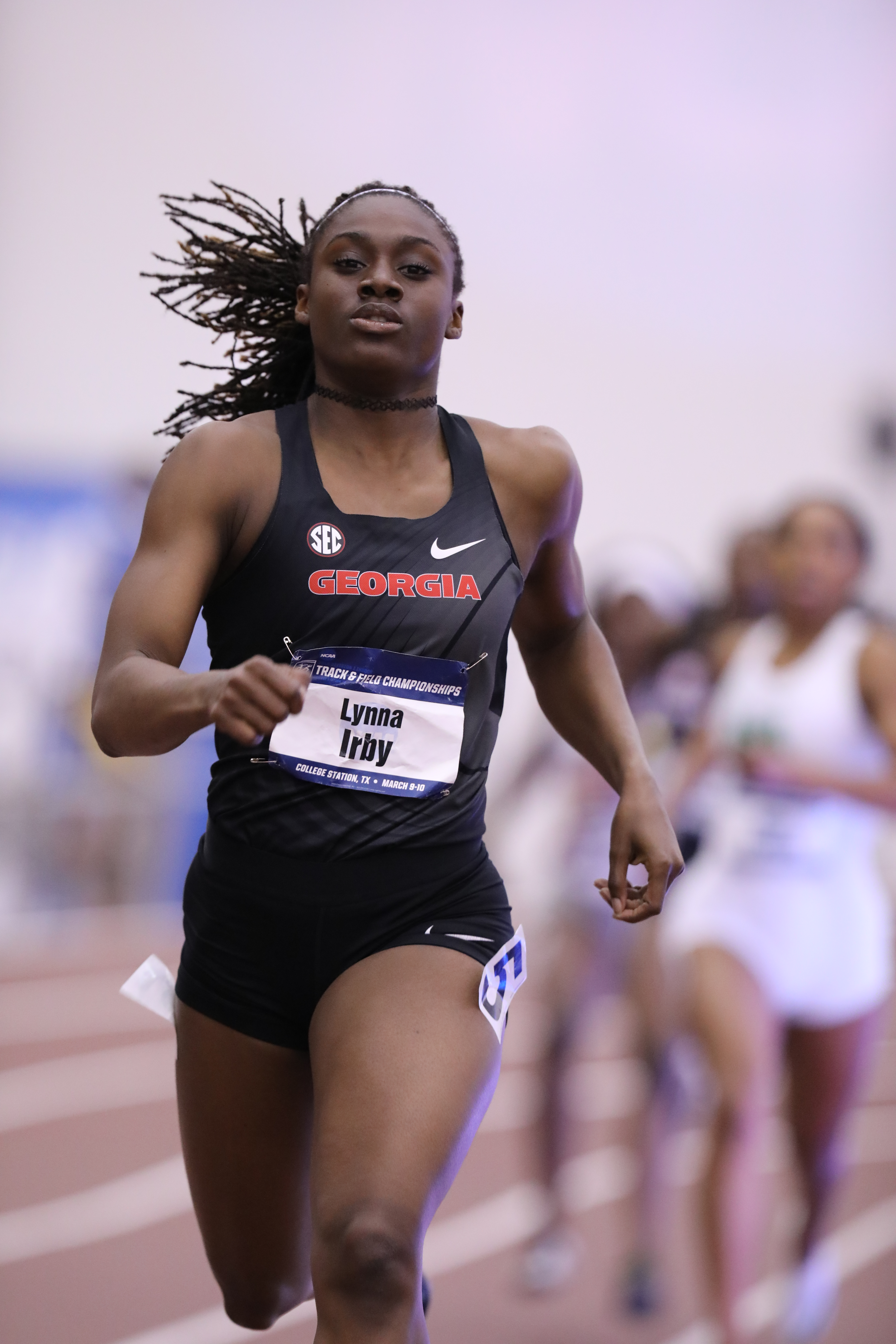 from a 2018 NCAA meet